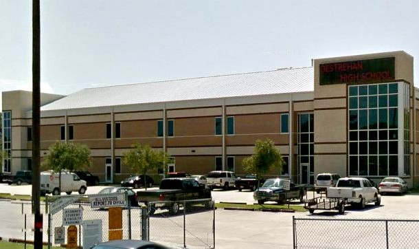 Building L at Destrehan High School by Bmott1999